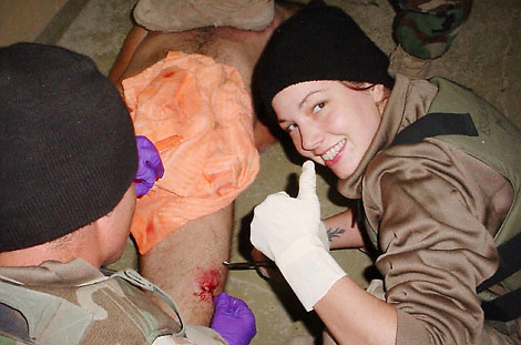 11:23 p.m., Dec. 12, 2003. SPC HARMAN poses for photo while she sutures detainee. SOLDIER(S): SPC HARMAN, SPC STROTHERS; NAKHLA (Civilian contractor). All caption information is taken directly from CID materials. U.S. Army / Criminal Investigation Command (CID). Seized by the U.S. Government. Note: Abu Ghraib dogs. Sabrina Harman stitches a wound on an Iraqi prisoner who has been bitten by a military dog.